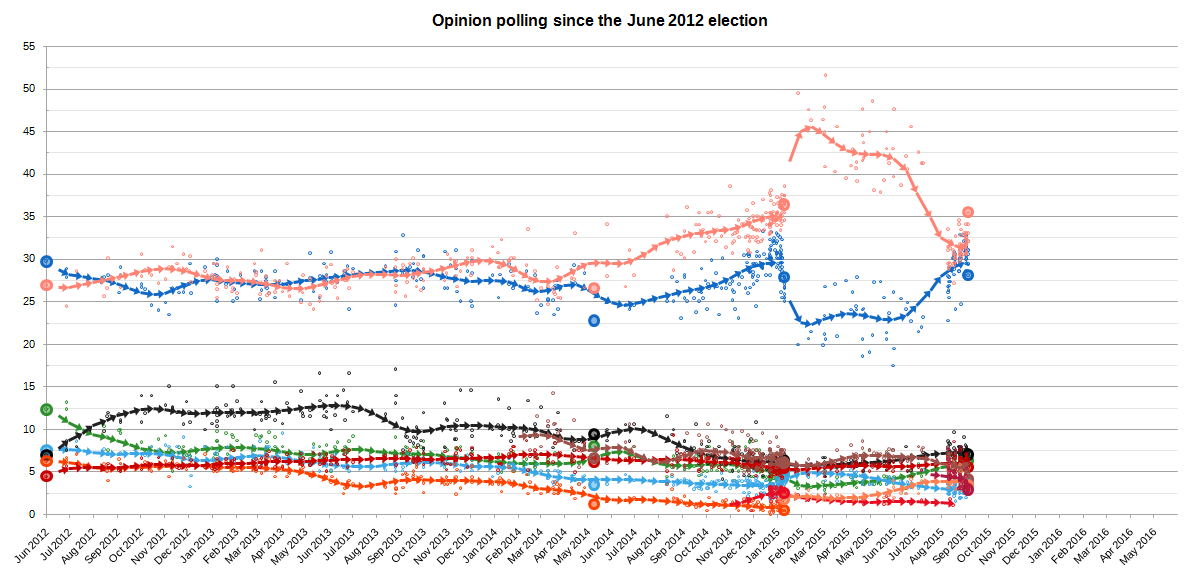 Opinion polling 15-day average leading up to the Next Greek legislative election ND SYRIZA PASOK ANEL XA DIMAR KKE To Potami KIDISO